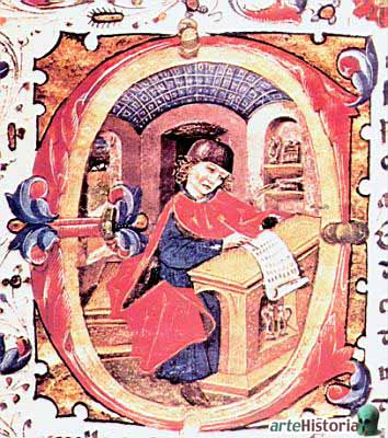 Historiated initial in Alfonso de la Torre's "Visión deleytable".